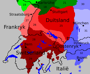 Western Upper-German language region.